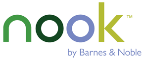 Logo for the Barnes & Noble Nook